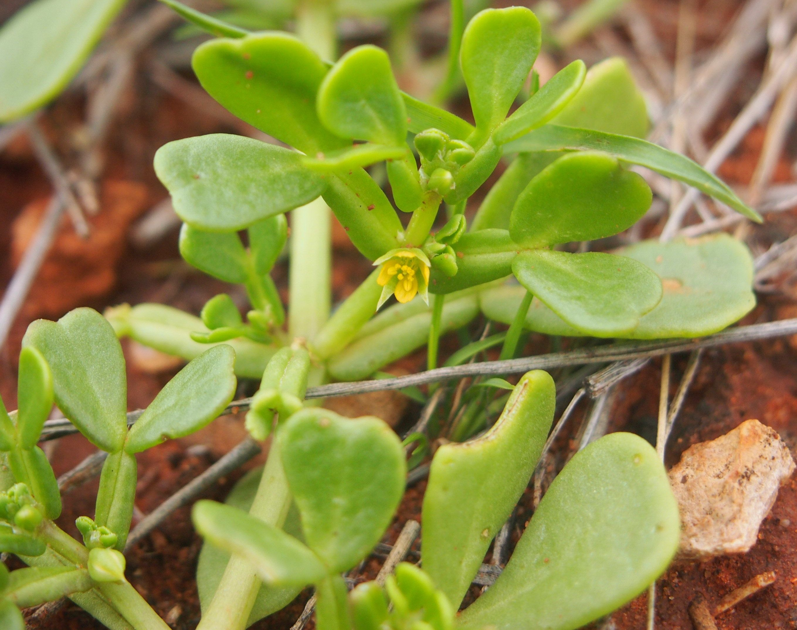 Zygophyllum primatothecum flower